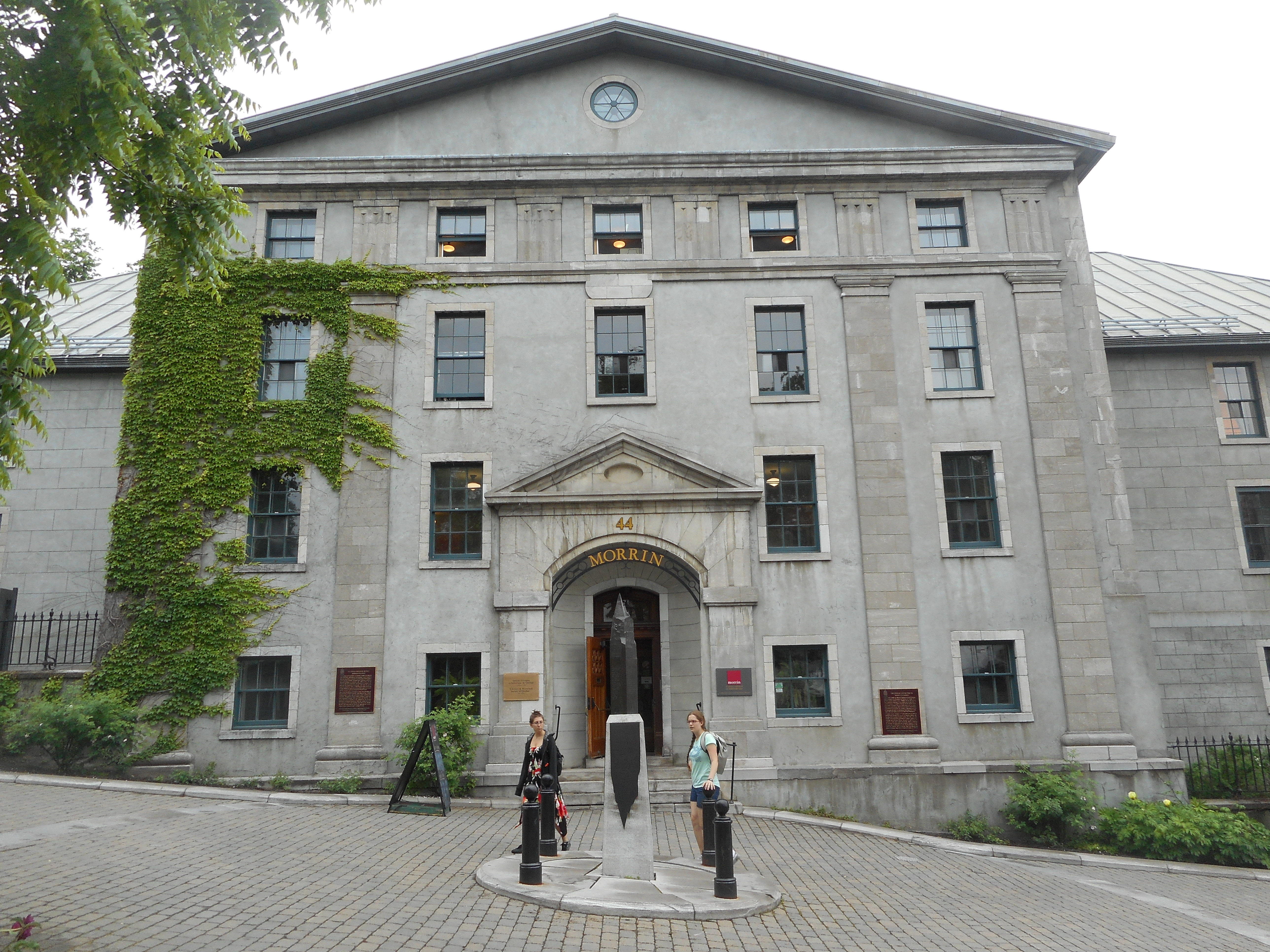 The Morrin Centre is a cultural centre in Quebec City. It is designed to educate the public about the historic contribution and present-day culture of local English-speakers. The centre contains the private English-language library of the Literary and Historical Society of Quebec, heritage spaces for events, and interpretation services.